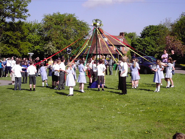 Maypole Dancing on Village Green Children from Tewin Cowper School Maypole dancing 2009 on the Village Green in Tewin, near Welwyn Garden City, with the Rose and Crown Public House in background